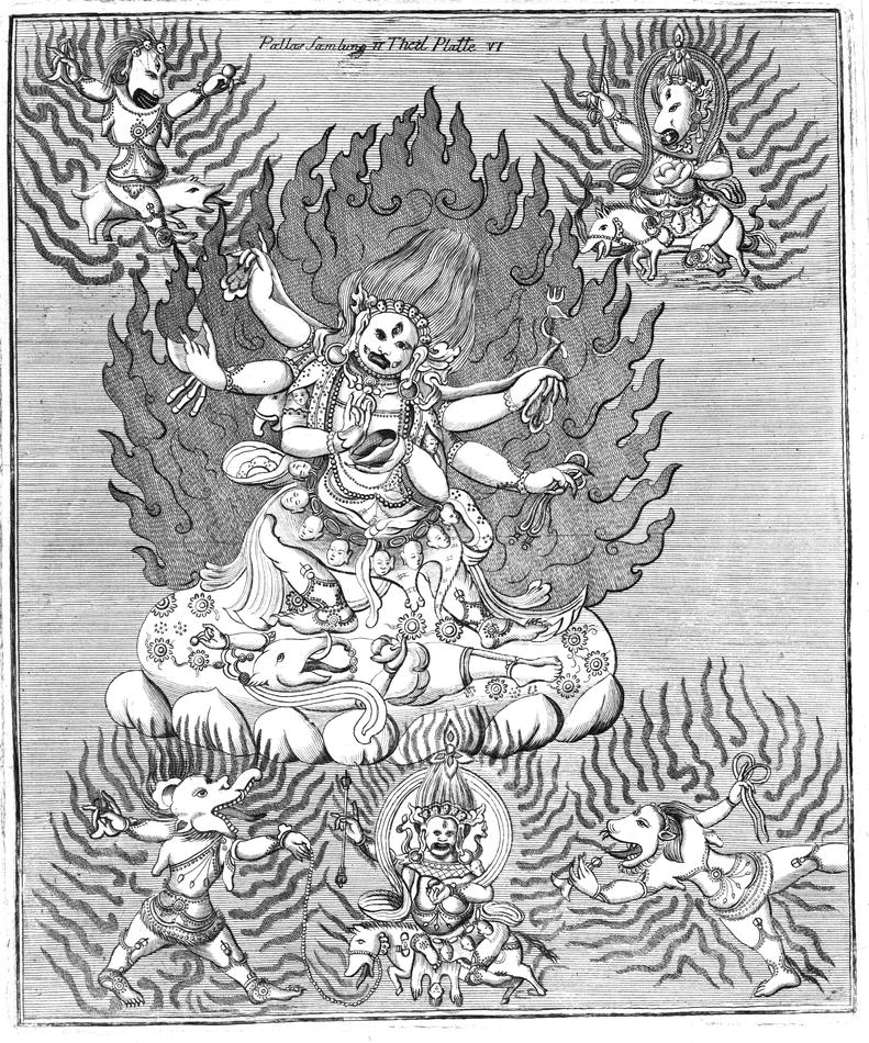 Yamantaka from an unknown Mongolian artist